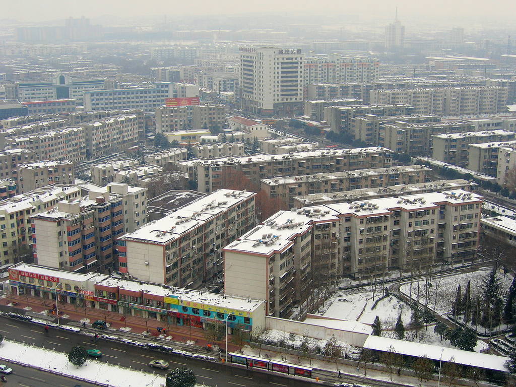 Luoyang City from the Peony Hotel